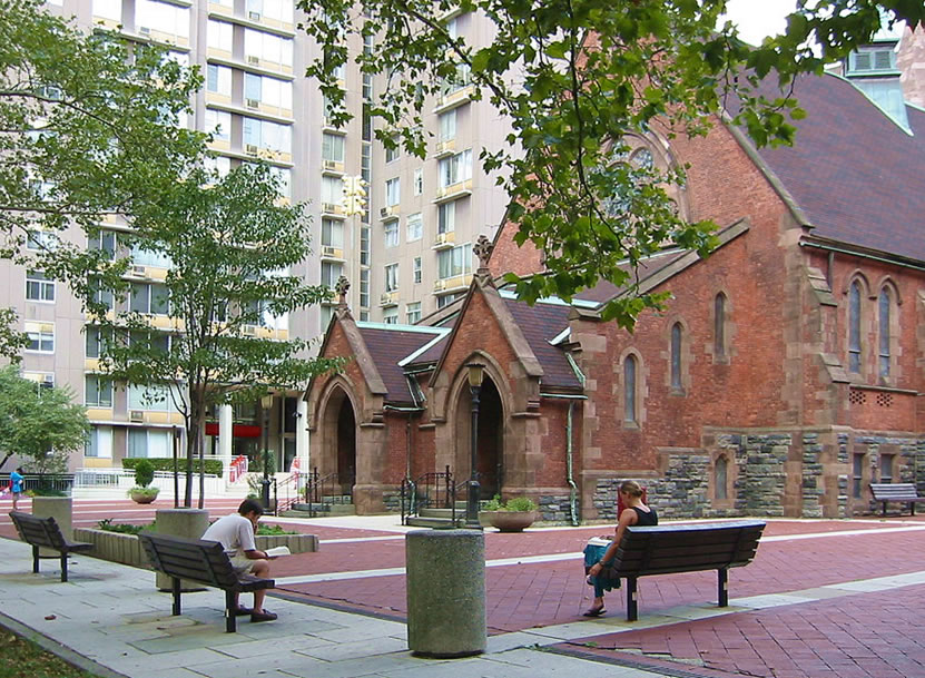 Looking northeast at the Chapel of the Good Shepherd (Frederick Clarke Withers, 1889) on Roosevelt Island.